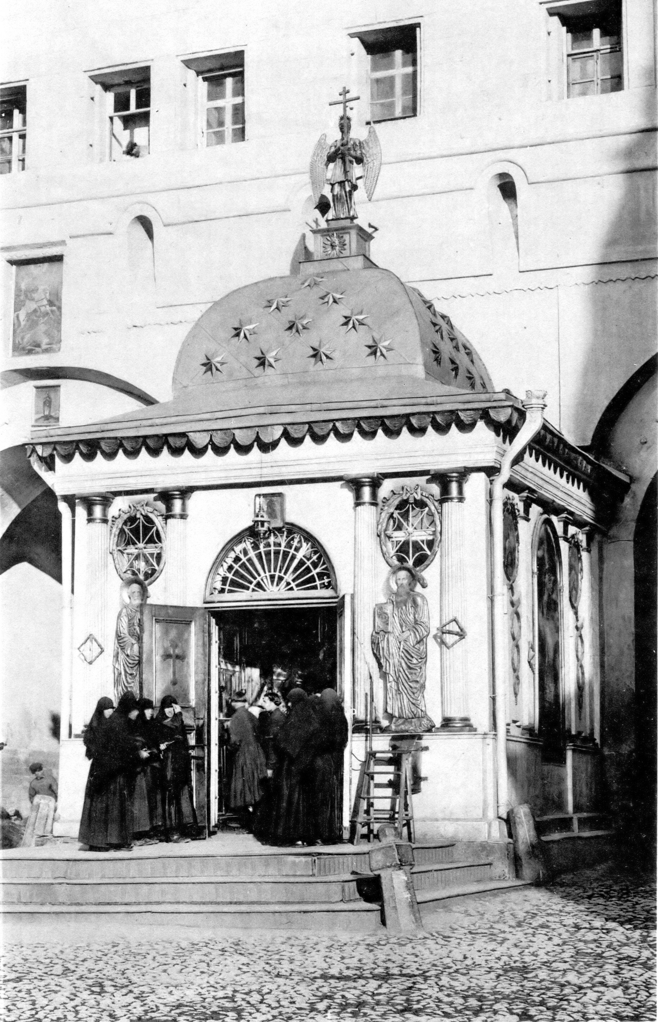 Resurrection Gate in Moscow in early 1900s